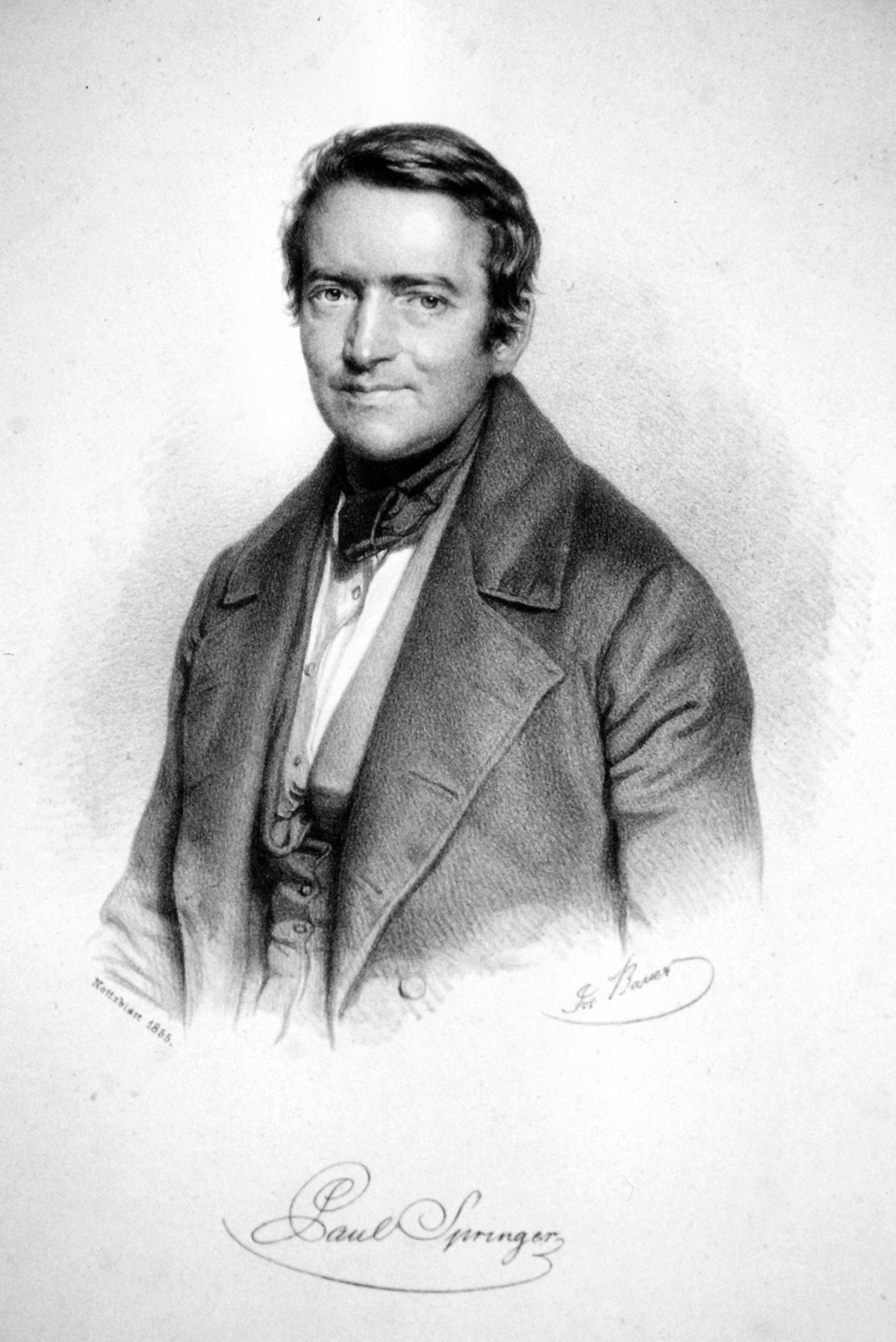 Depicted person: Paul Wilhelm Eduard Sprenger